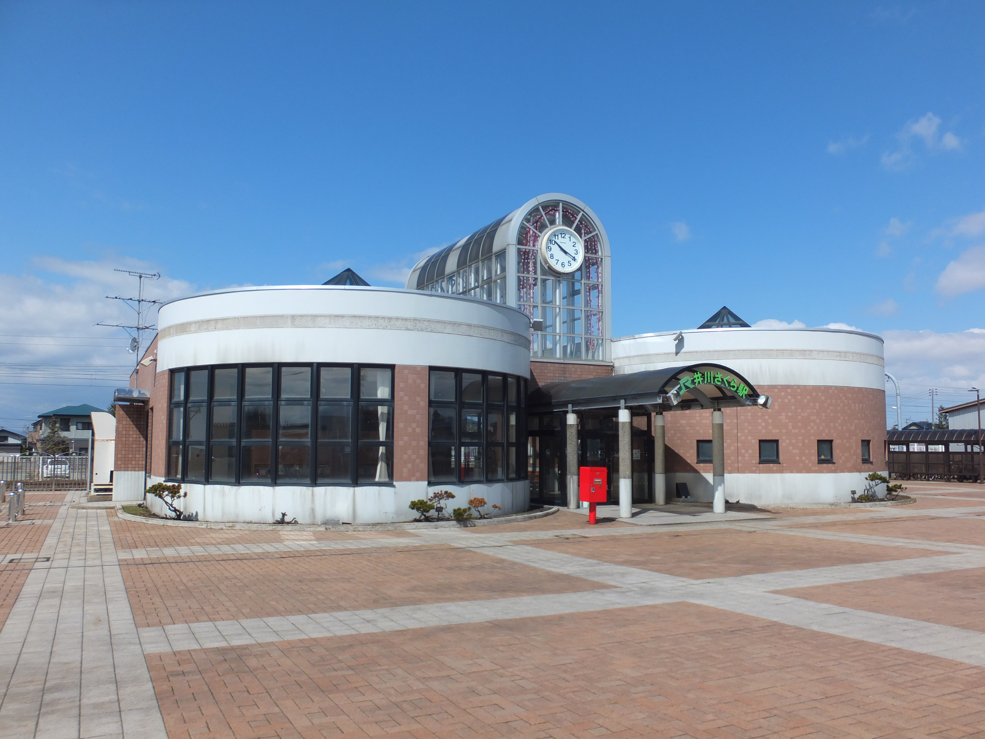 Ikawa-Sakura Station on the Ou Main Line, in Ikawa Town, Akita Prefecture, Japan